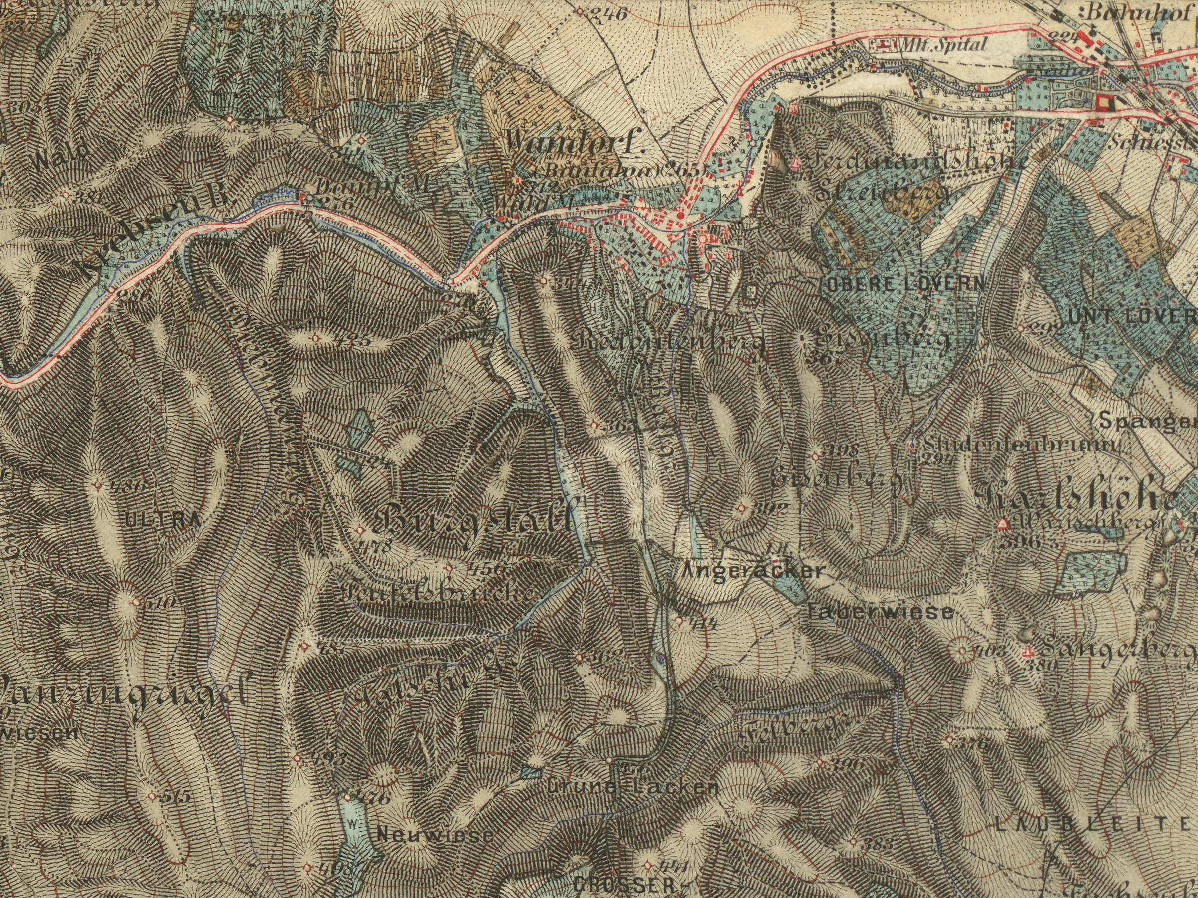 Burgstall/Várhely (Sopron, Hungary) and the surrounding area on map of 3rd Military Mapping Survey of Austria-Hungary